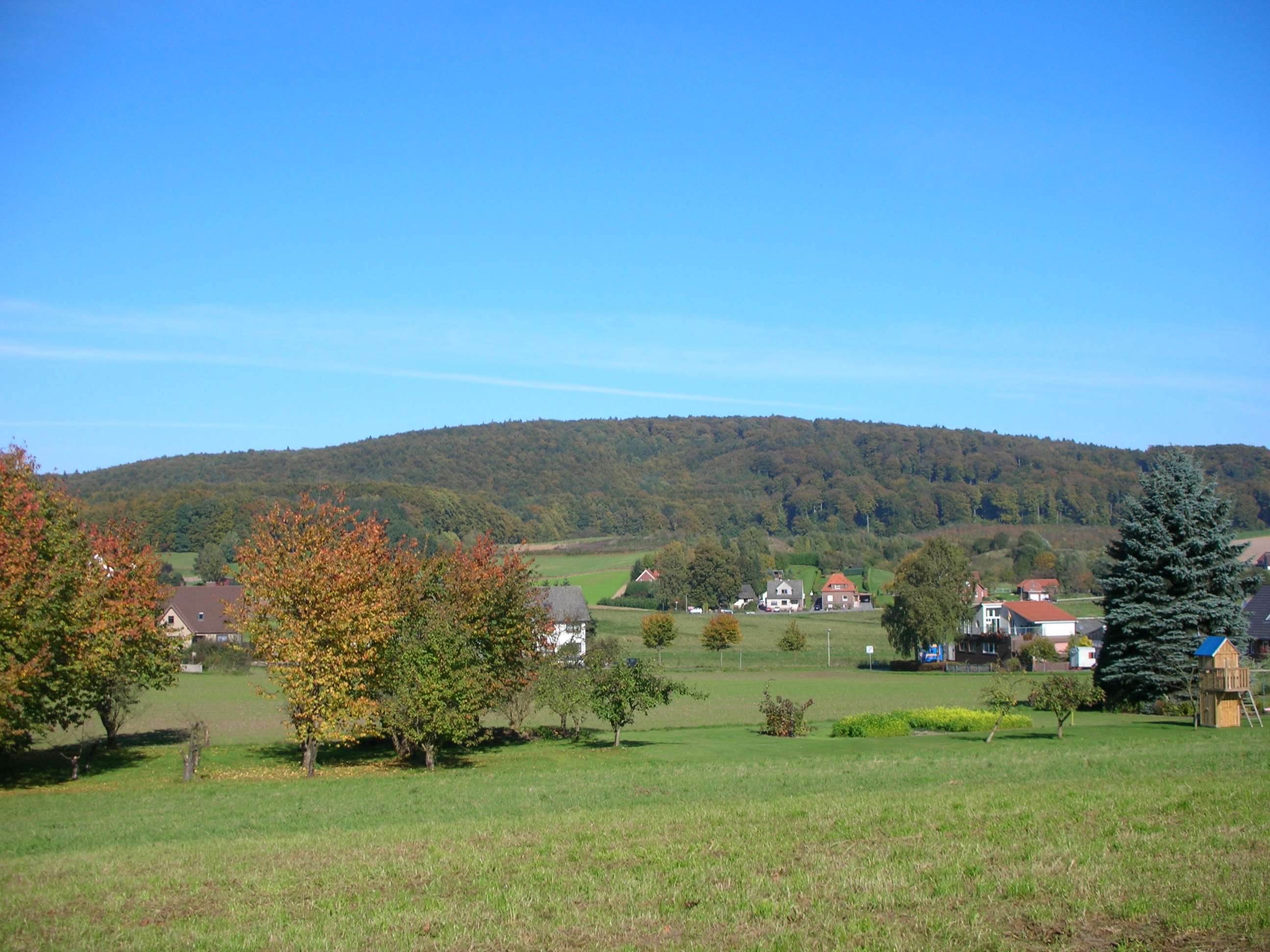 Wooden hill of Nammer Lager from south in the Wesergebirge